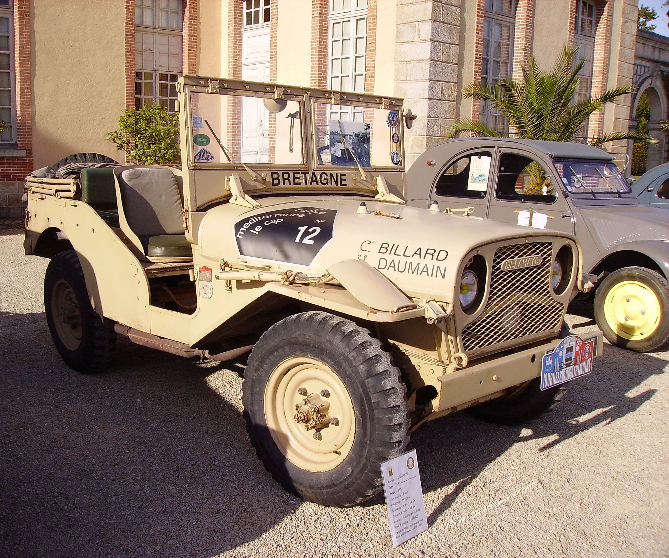 The crew of this No.12 VLRD (Véhicule Léger de Reconnaissance Delahaye) participated in the second Méditerranée-Le Cap Rally 1953.